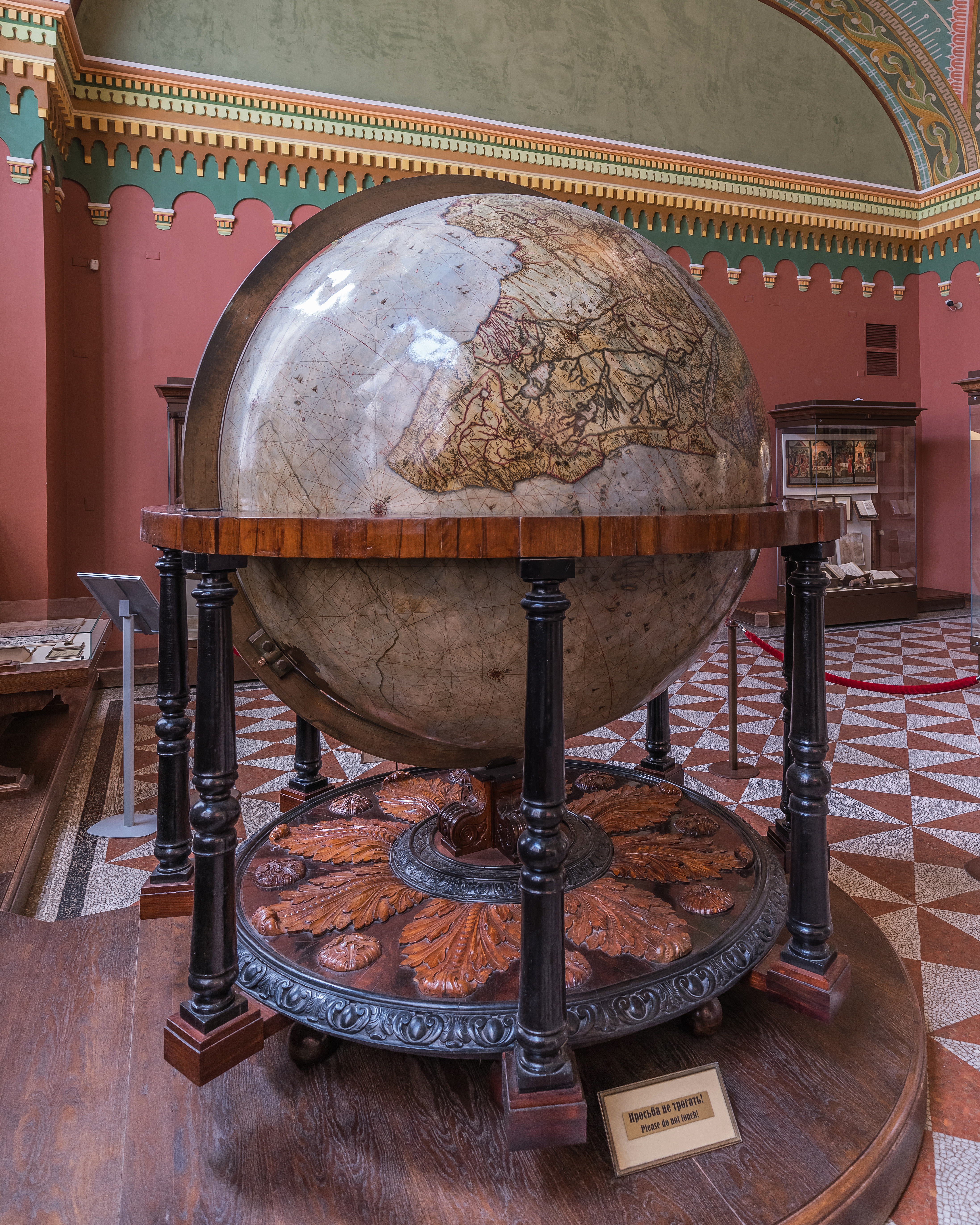 Interior of the main building of State Historical Museum in Moscow, Russia